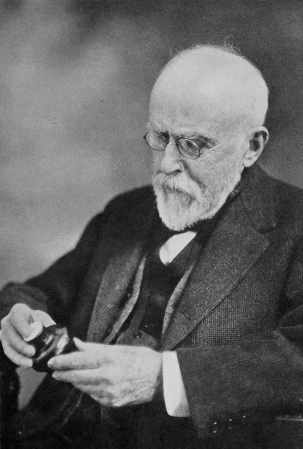 Changed transcoded PNG to correct JPG. Obtained higher res image from scan. Original file File:EdwardMorse BSNH 1930.png